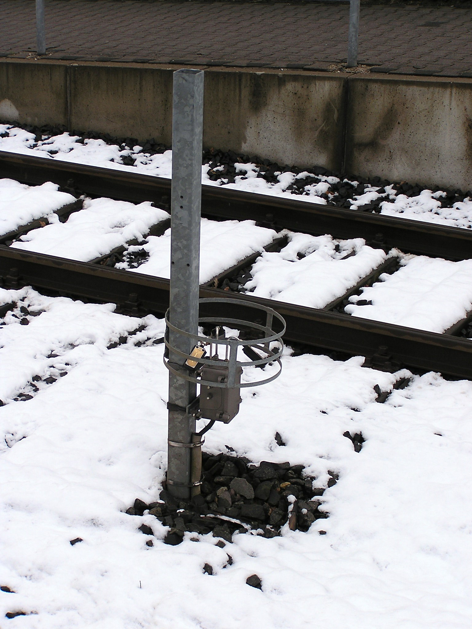 Sensor of a point heating.